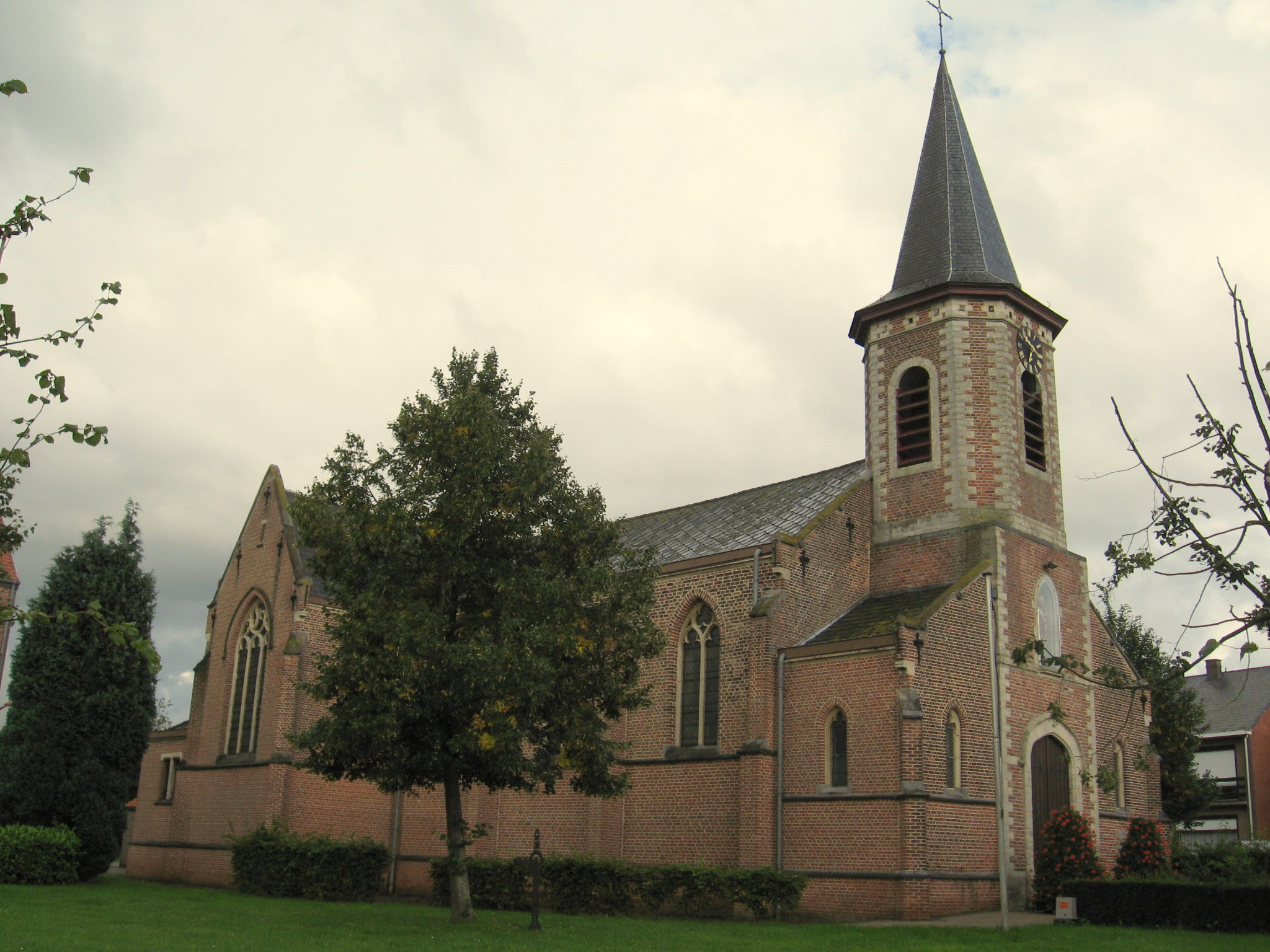 Church of Saint Engelbert in Deurne, Diest, Flemish Brabant, Belgium